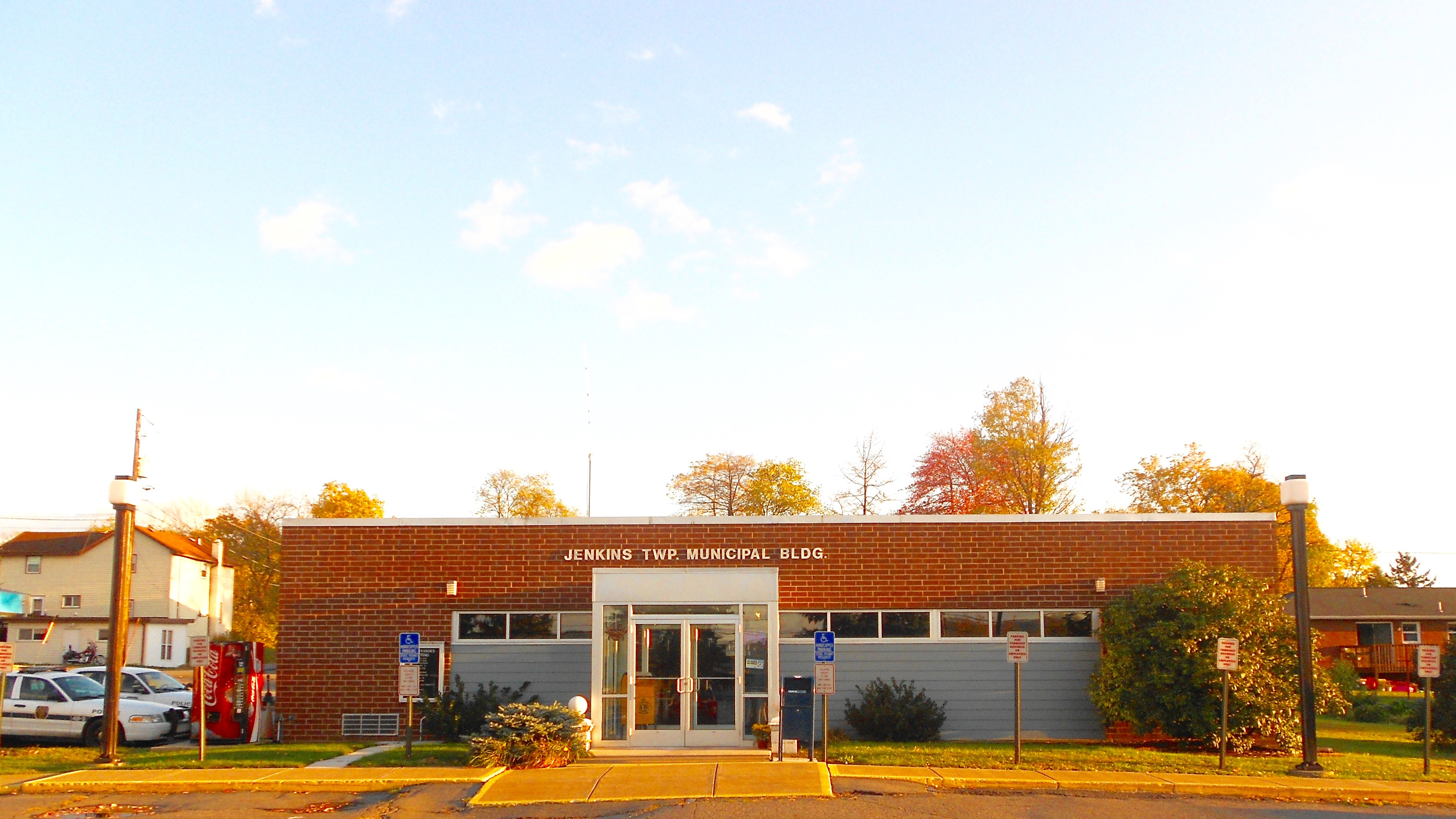 Jenkins Township Municipal Building in the unincorporated village of Inkerman, Luzerne County, Pennsylvania